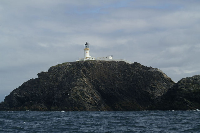 Muckle Flugga from the seaward side The bare, seabird-free outer edge of Muckle Flugga, exposed to the full force of the Atlantic.